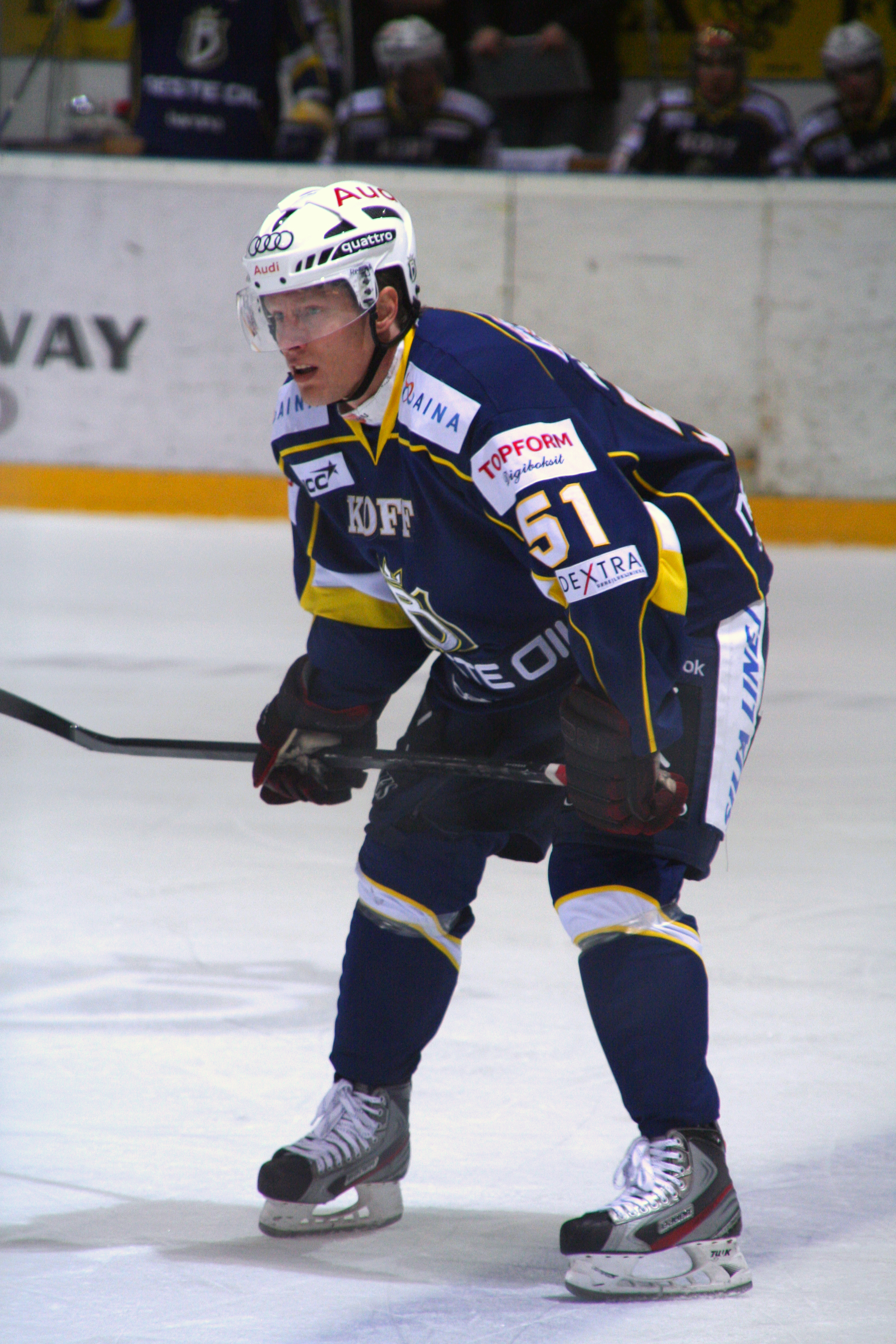 Ice Hockey Team Espoo Blues' Attacker #51 Mika Hannula